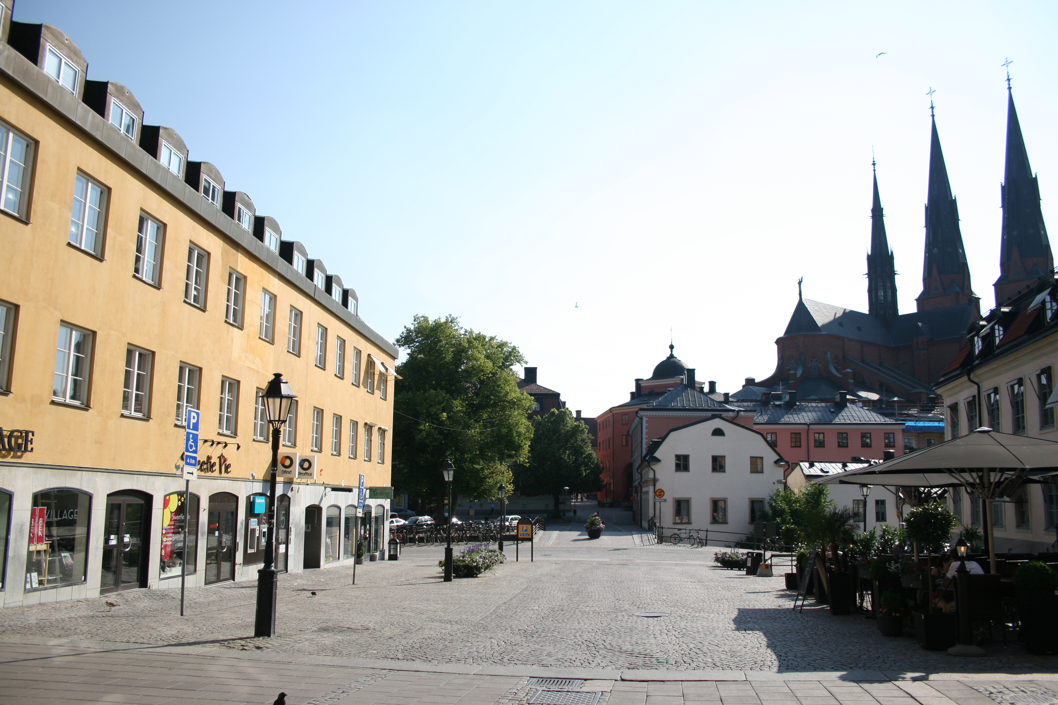 The UCDP is located at Uppsala University's Department of Peace and Conflict Research (at left) in Gamla Torget.